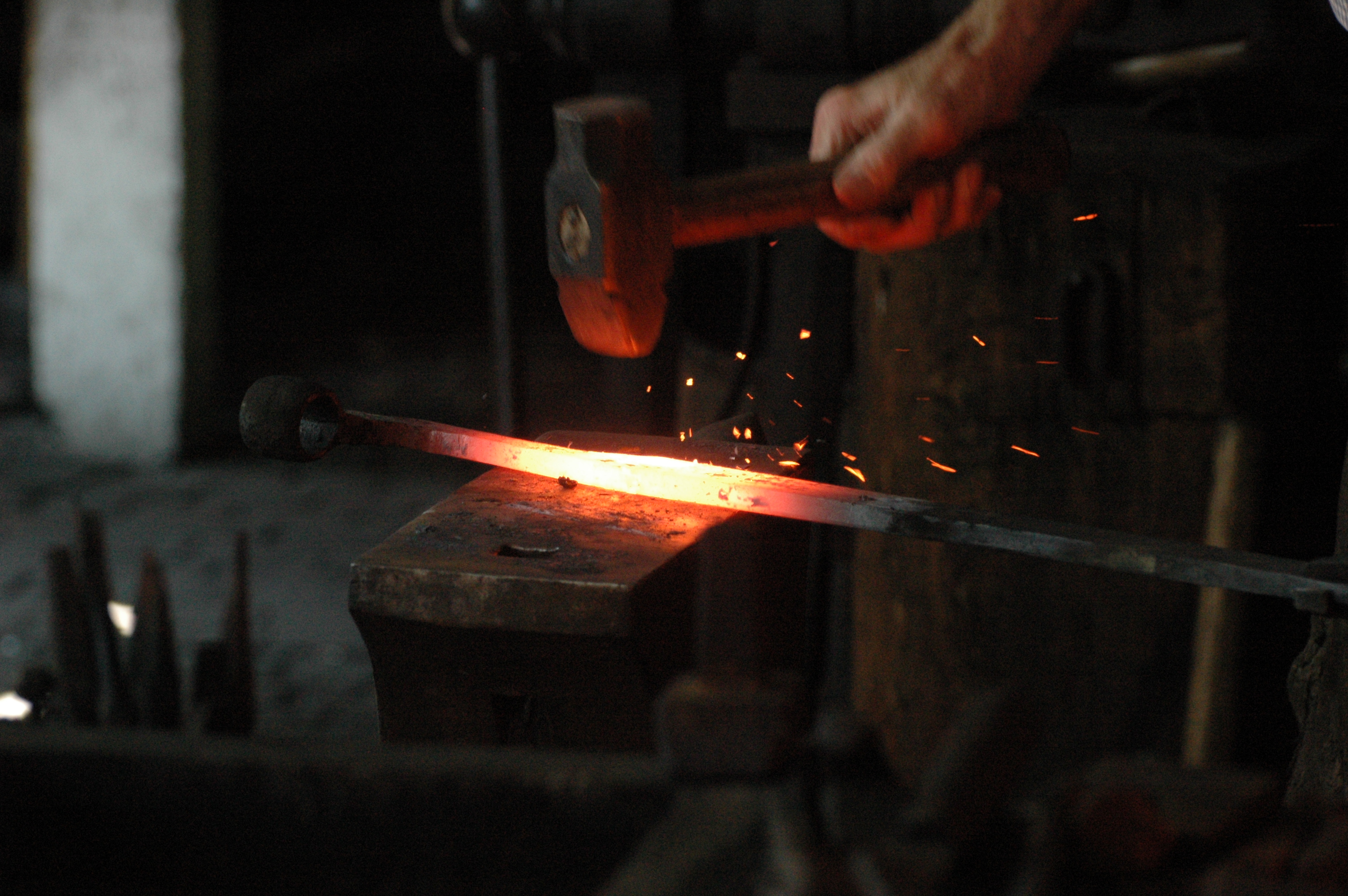 Blacksmith working hot iron